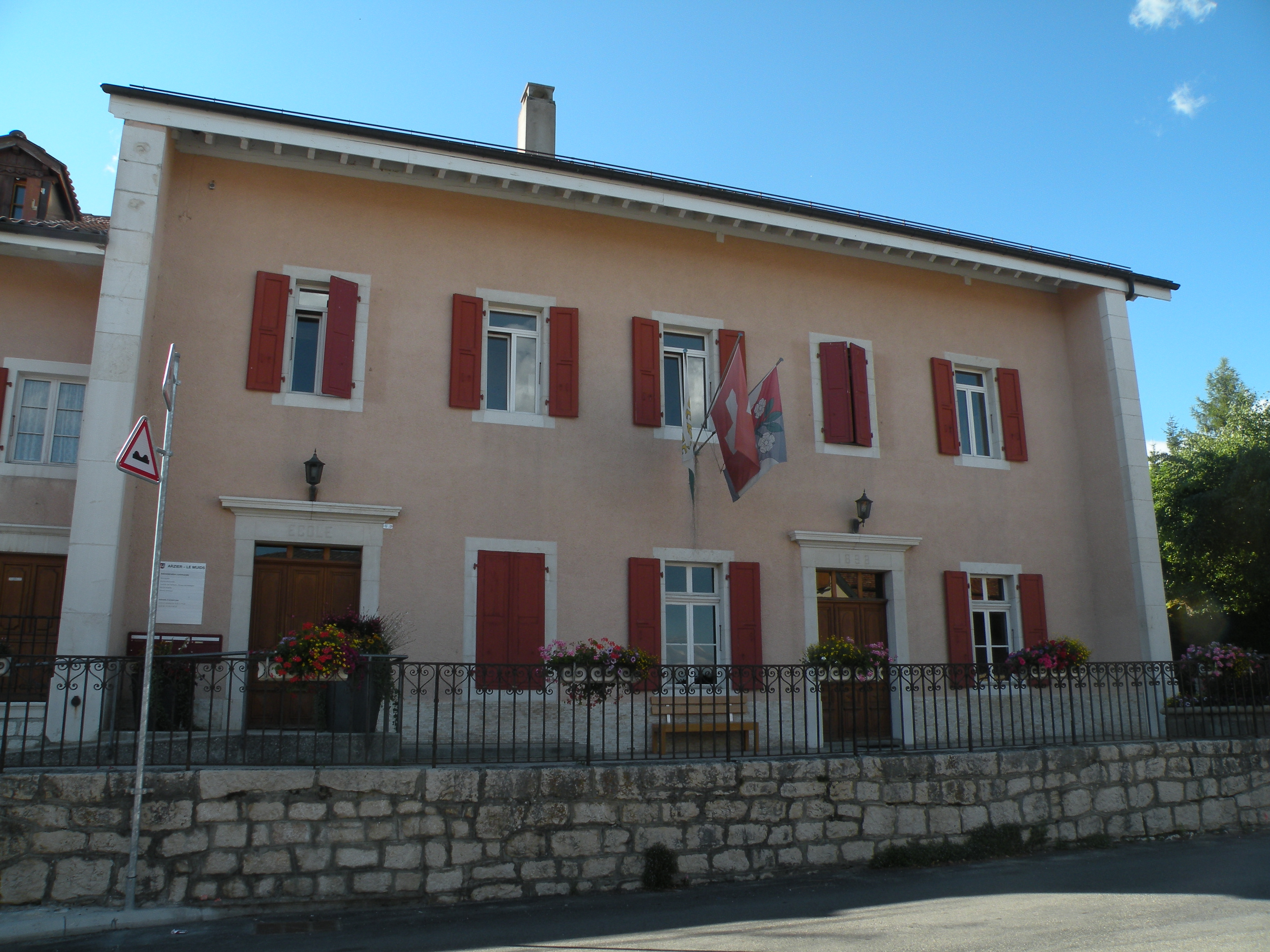 Town hall of Arzier